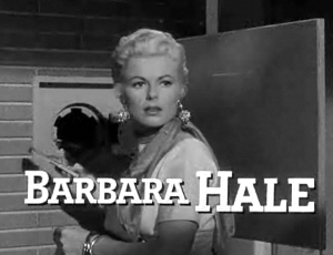 Cropped screenshot of Barbara Hale from the trailer for the film The Houston Story